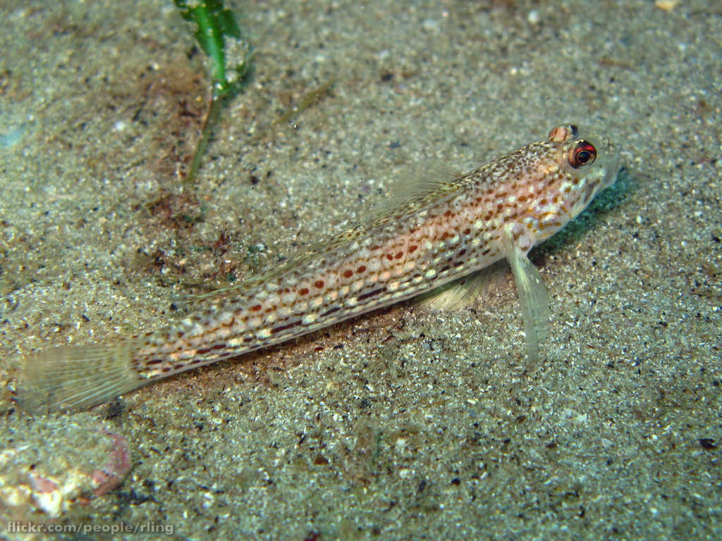 Hoese's Sandgoby (Istigobius hoesei). Fairy Bower, Manly, NSW